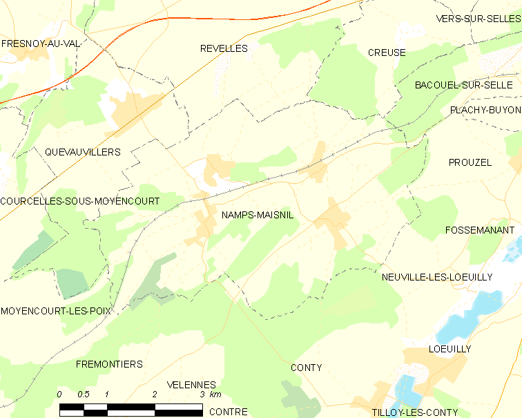 Map of French municipality Namps-Maisnil